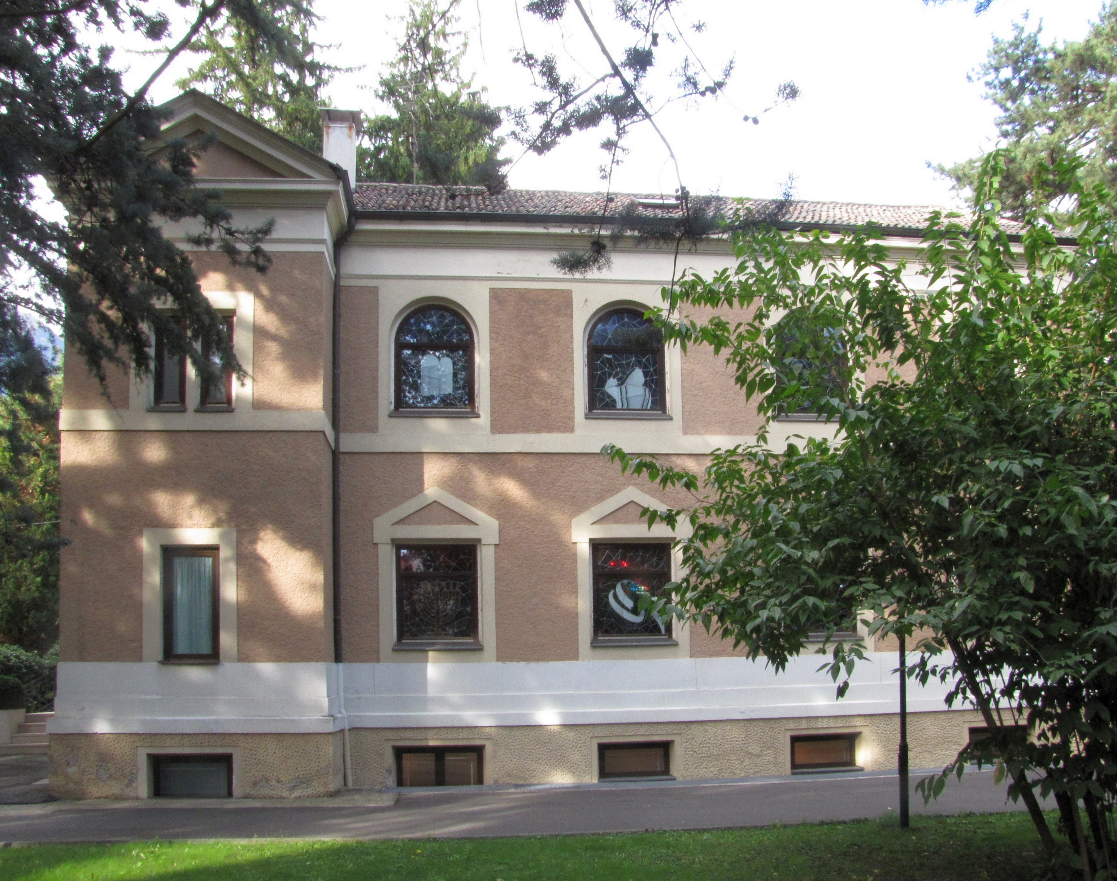 Synagogue in Meran, South Tyrol